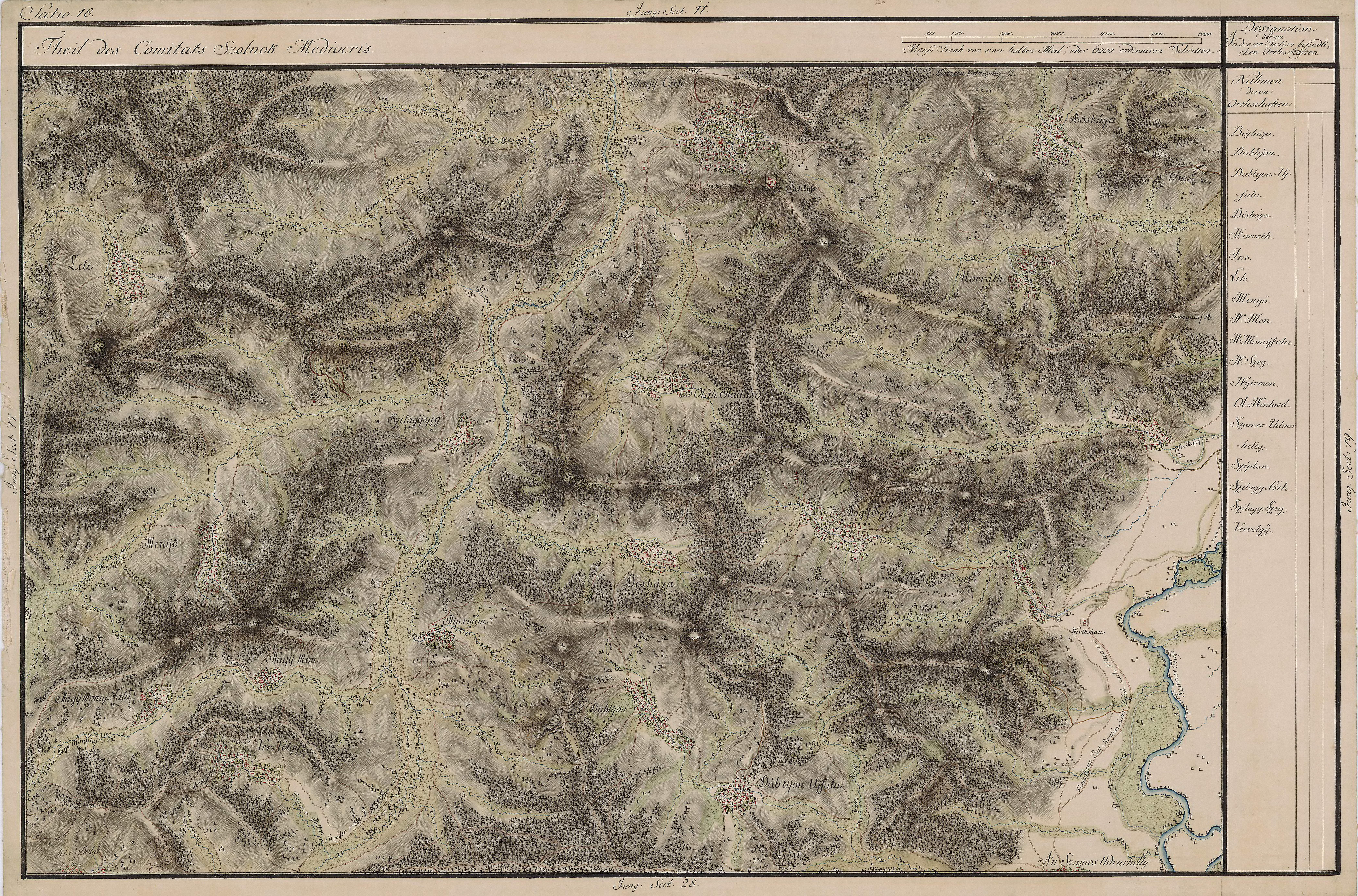 Grand Duchy of Transylvania, 1769-1773. Josephinische Landaufnahme pg.018